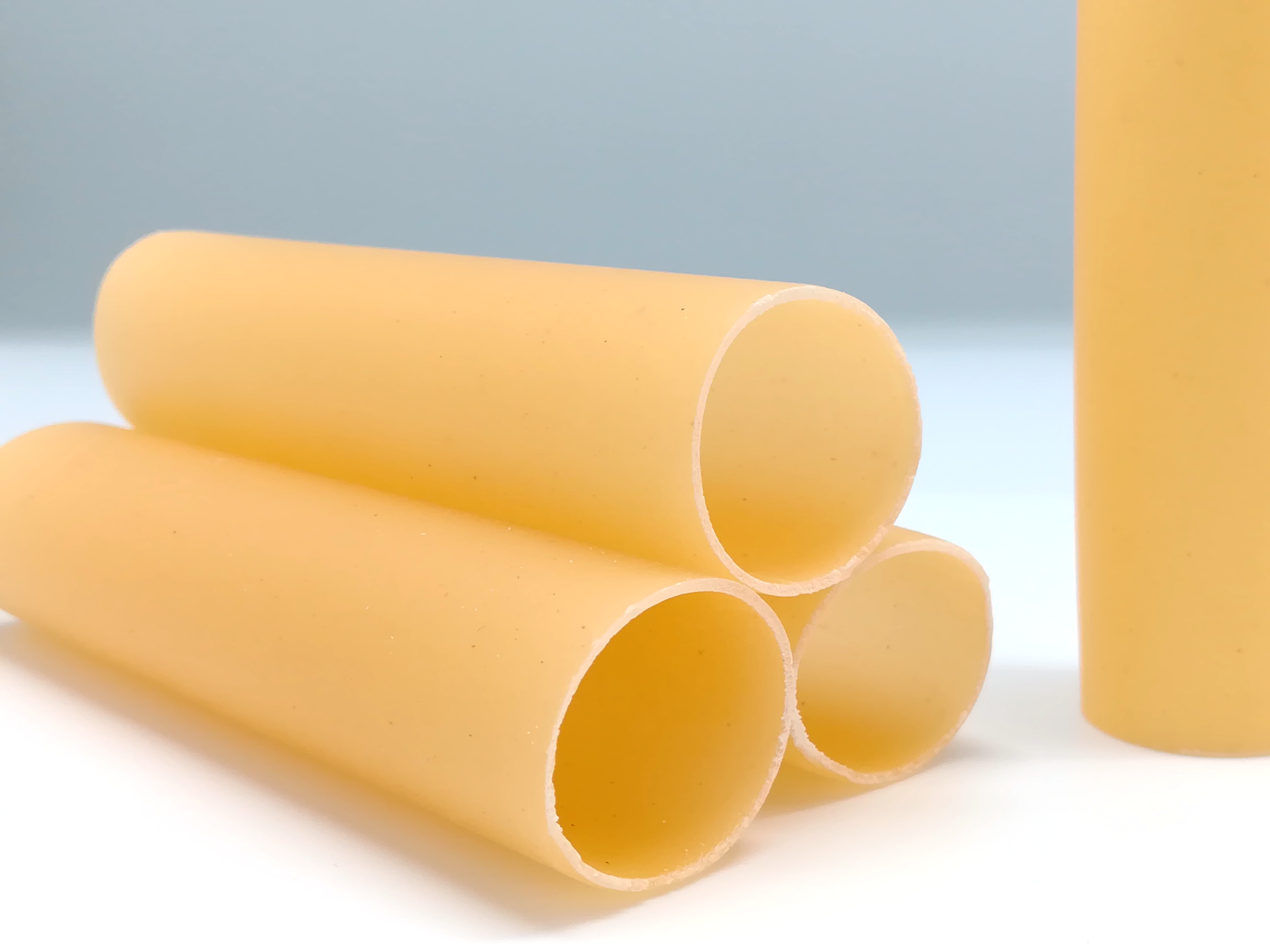 Raw cannelloni.